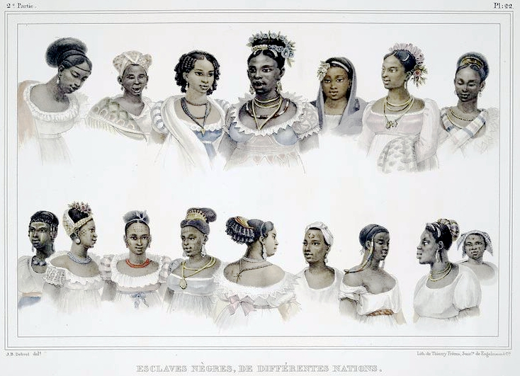 Black slaves of different nation in Brazil circa 1830. Library Division: Humanities and Social Sciences Library / Print Collection, Miriam and Ira D. Wallach Division of Art, Prints and Photographs Description: 3 v. facsim., map, 2 plans, port. 50 cm. and 6 portfolios (153 plates) (incl. ports.) 59 cm. Item/Page/Plate Number:II/Pl. 22 Medium:Lithographs -- Hand-colored Specific Material Type: Prints Collection Guide: The Luso-Hispanic New World in Early Prints and Photographs